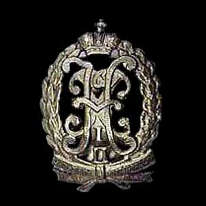 Badge of Nigegorodsky 22nd Regiment